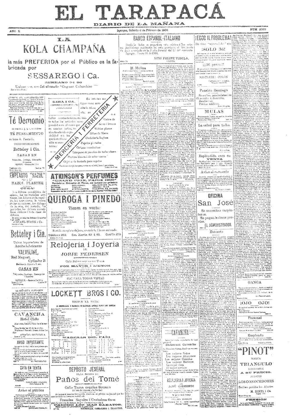 Newspaper front page